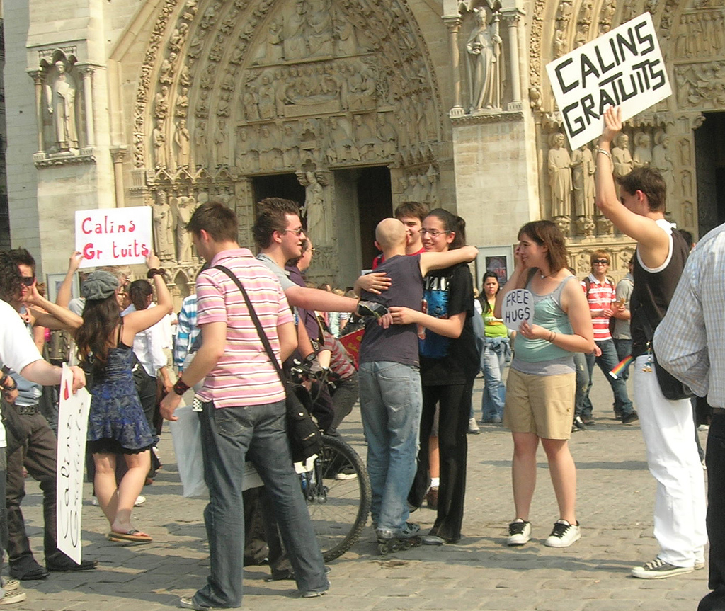 'FREE HUGS', Notre Dame de Paris, Paris.